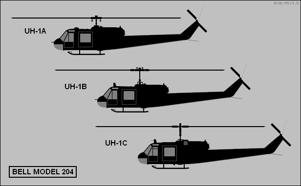 UH-1A, UH-1B and UH-1C models of the UH-1 Iroquois helicopter.